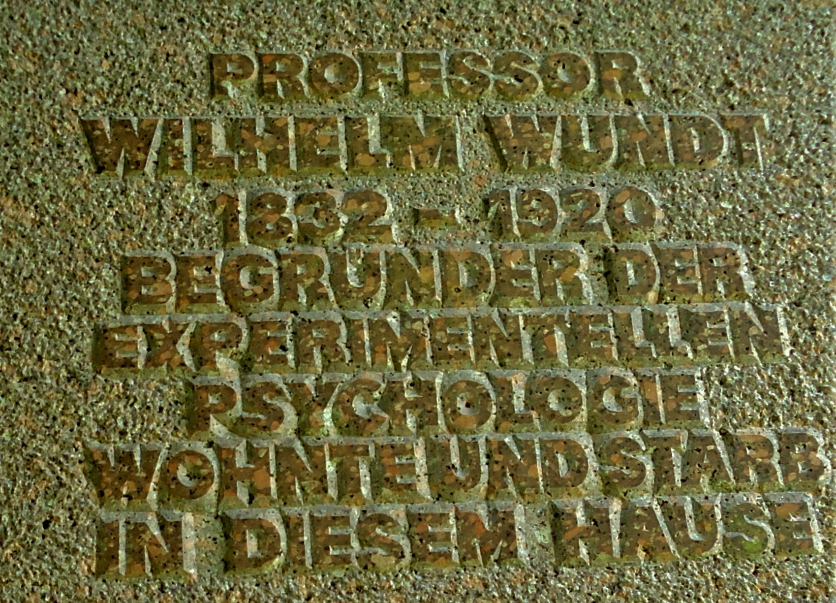 Inscription at Wundt's home in Grossbothen